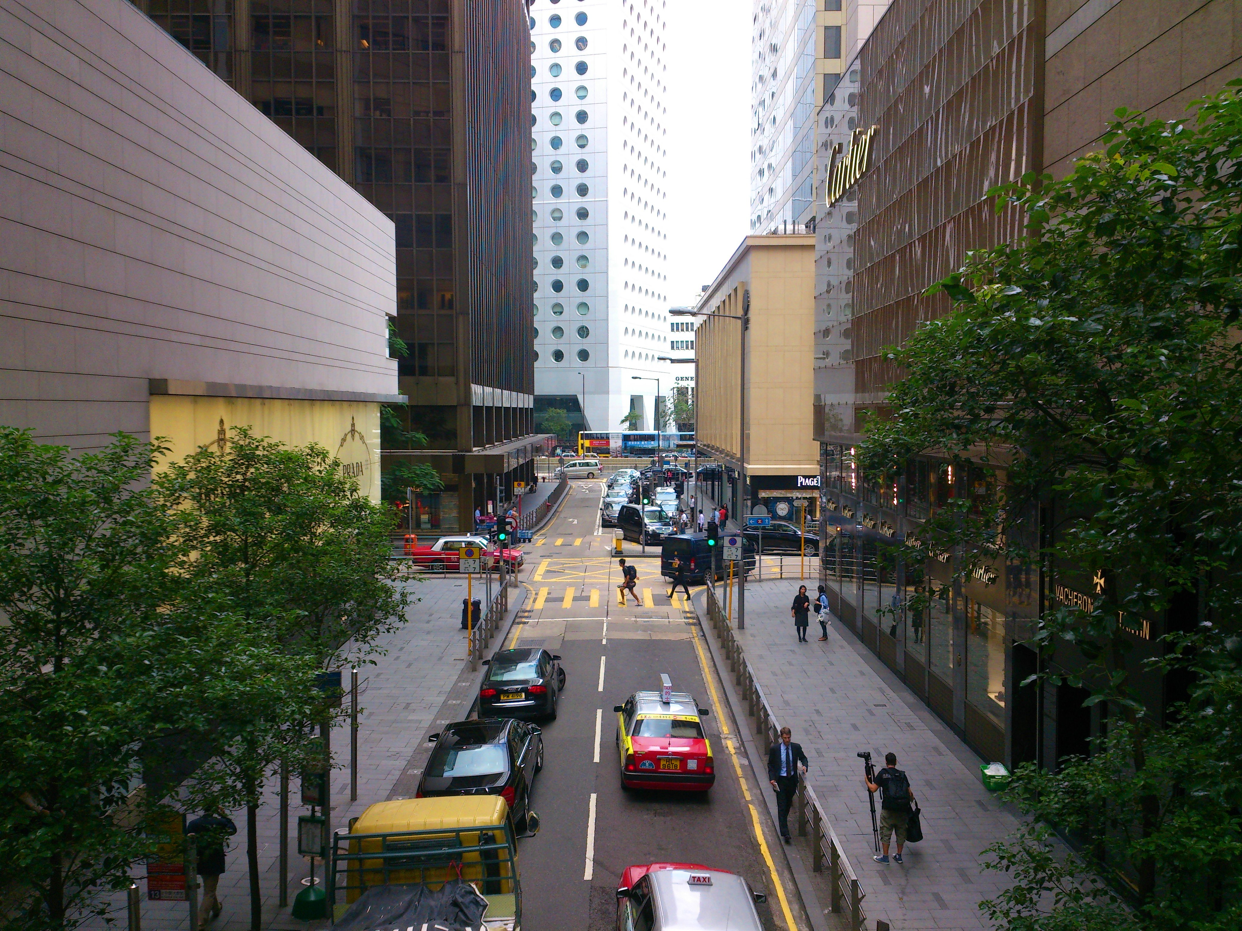 Ice House Street towards Chater Road